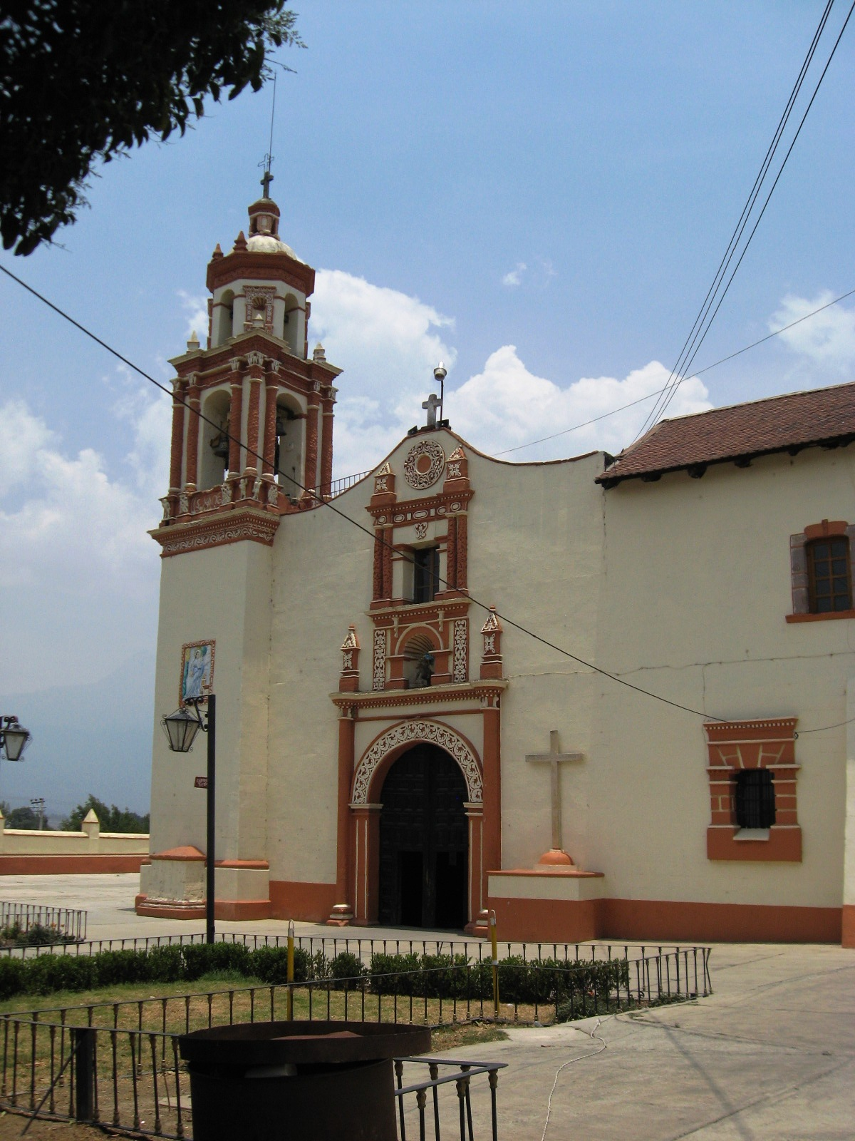 Parish of Santiago Apostol in Ayapango, Mexico State, Mexico